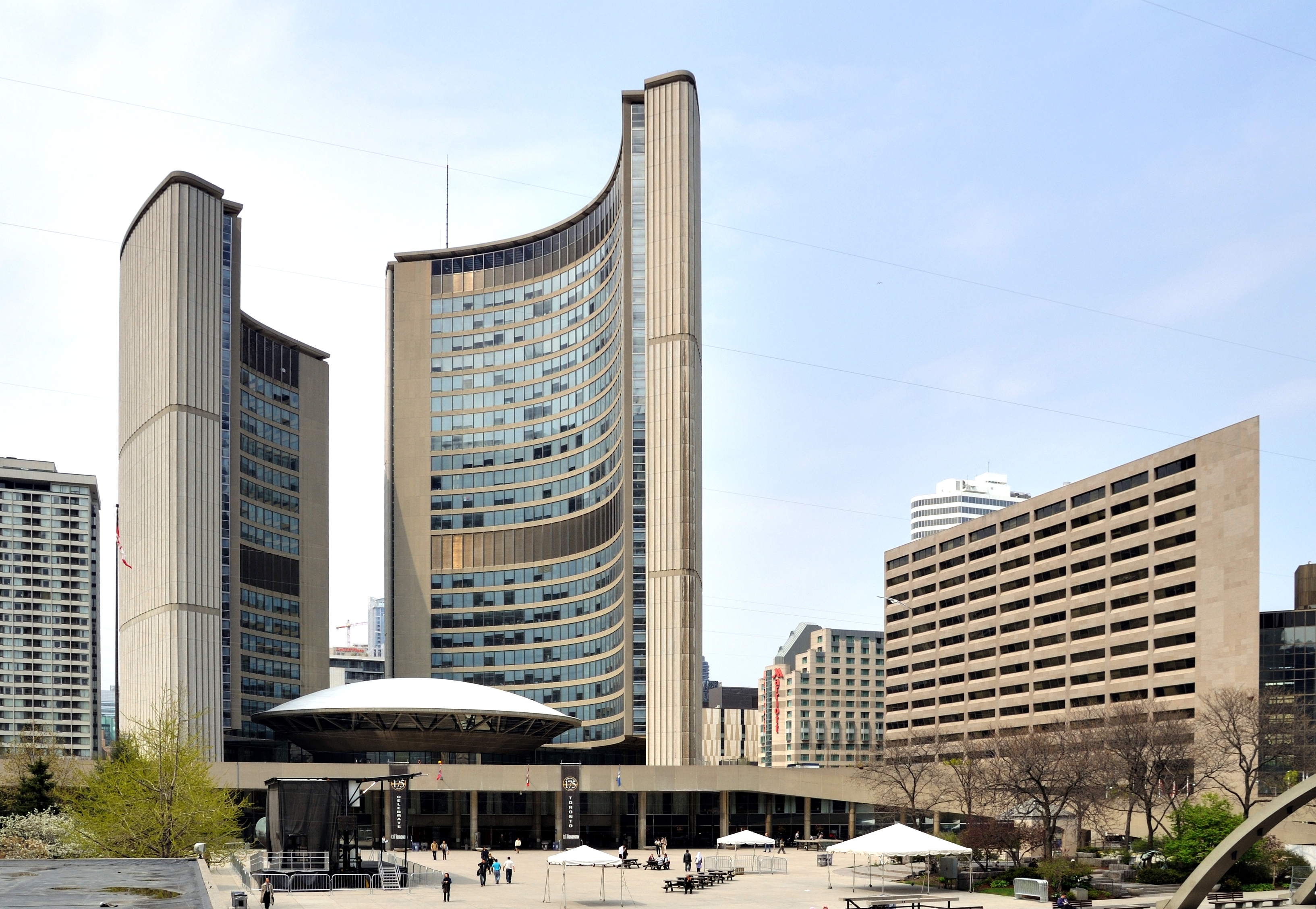 Toronto: New City Hall